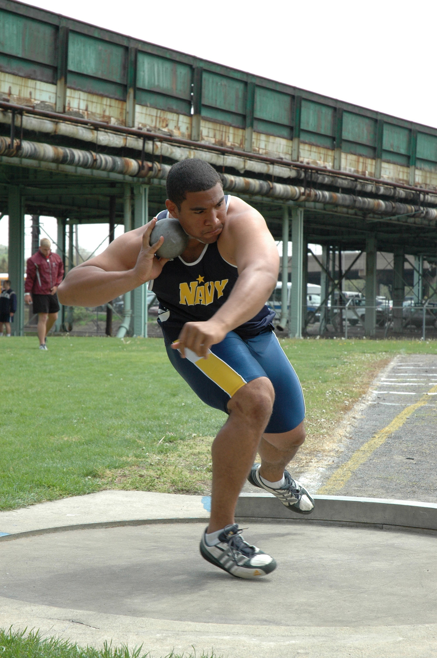 Philadelphia, Pa. (April 29, 2005) - Midshipman 4th Class Darryl Hunter side steps into position for his first attempt in the shot put event at the Penn Relays. Hunter and other members of the U.S. Naval Academy's track and field team are competing in the University of Pennsylvania's "Penn Relays." The Penn Relays is the nation's oldest and largest track-and-field competition for U.S. high schools and colleges. U.S. Navy photo by Photographer's Mate 1st Class Matthew L. Romano (RELEASED)